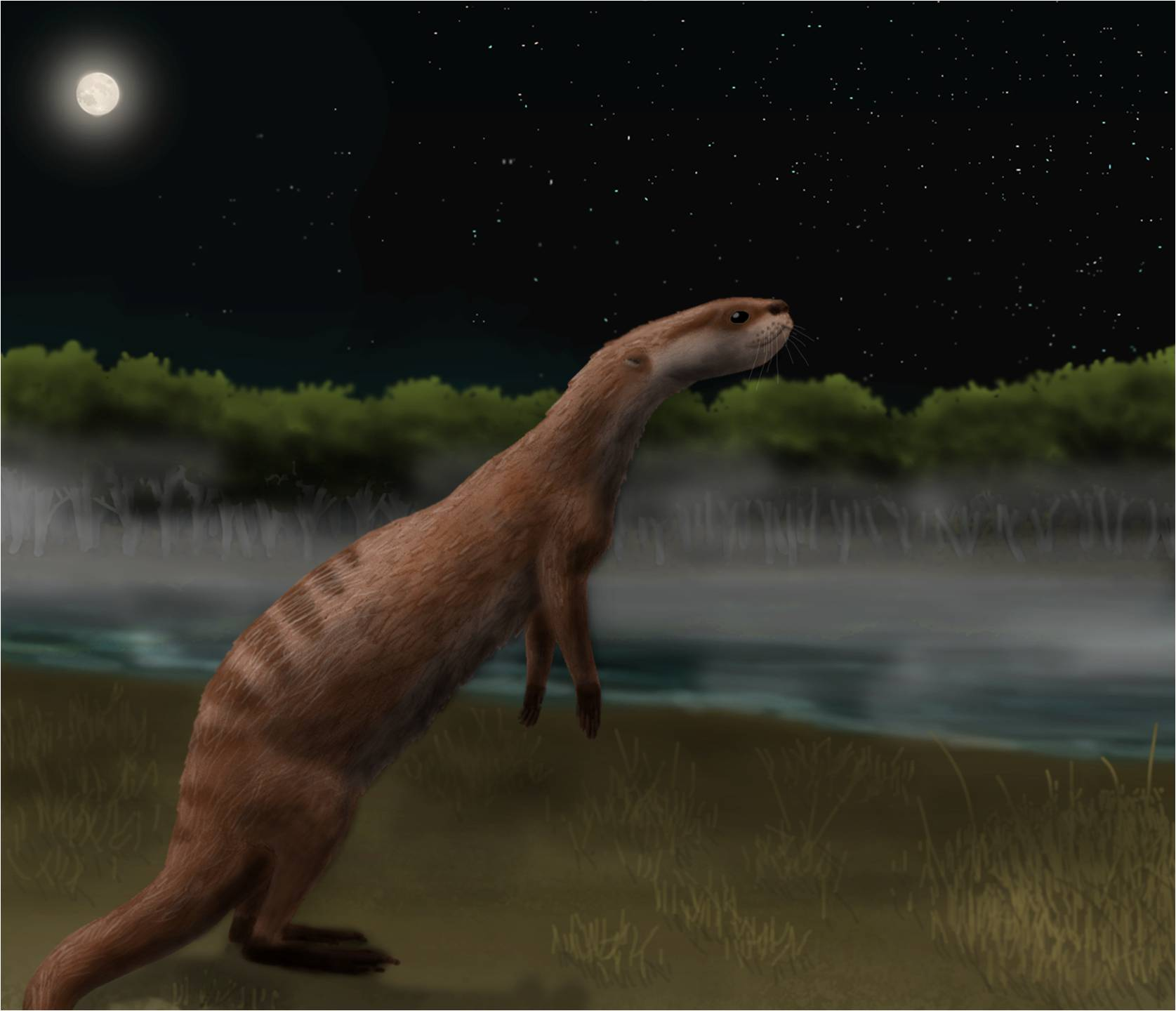 Life restoration of Potamotherium miocenicum.